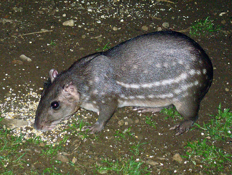 A night-feeder known as Paca. In context at